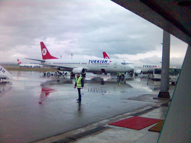 A Turkish Airlines aircraft at Ankara International Airport (ESB)